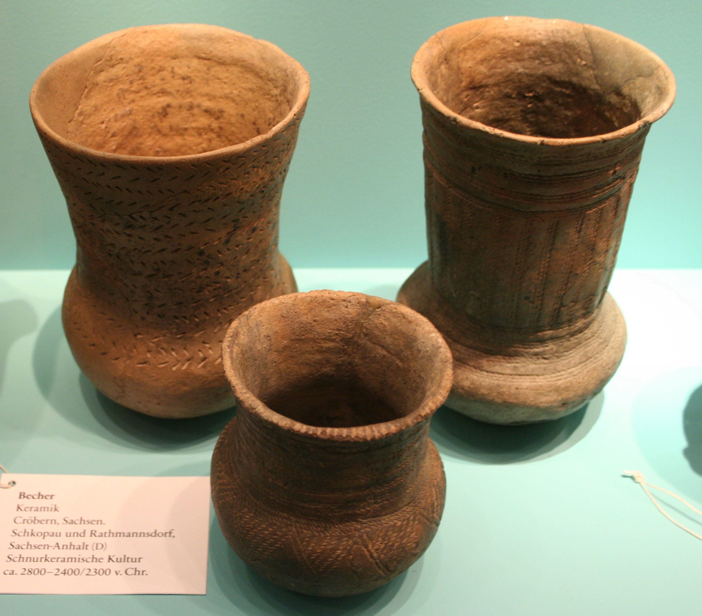 Museum für Vor- und Frühgeschichte (Museum of prehistory and early history), Berlin